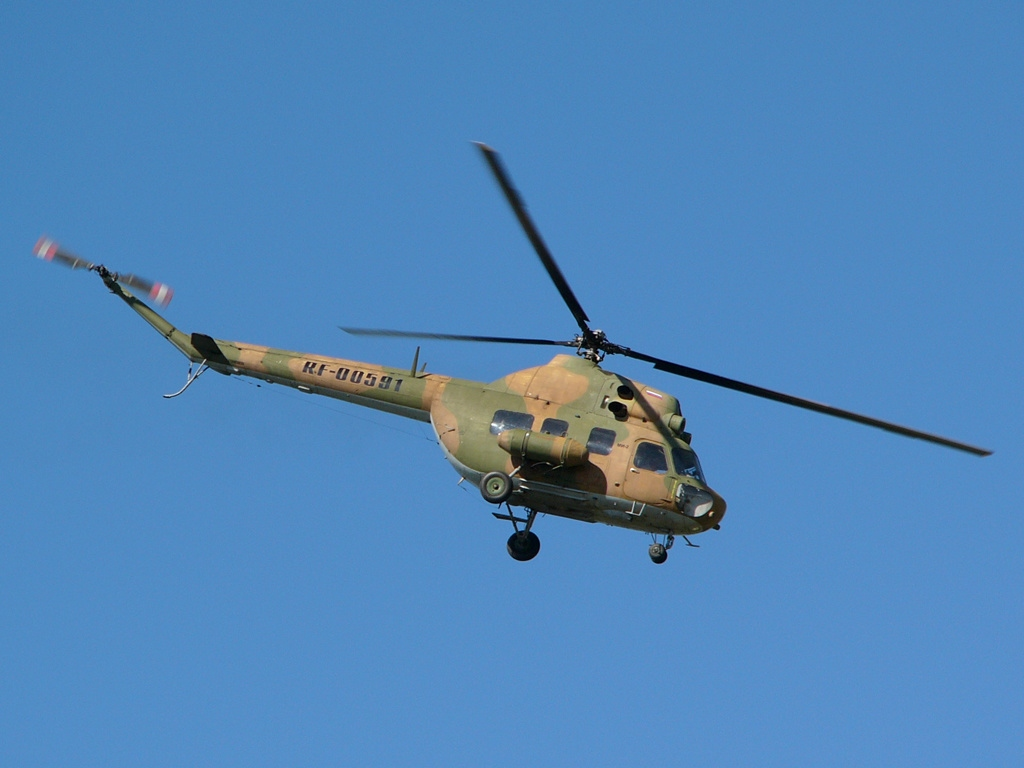 During Aviation Show.